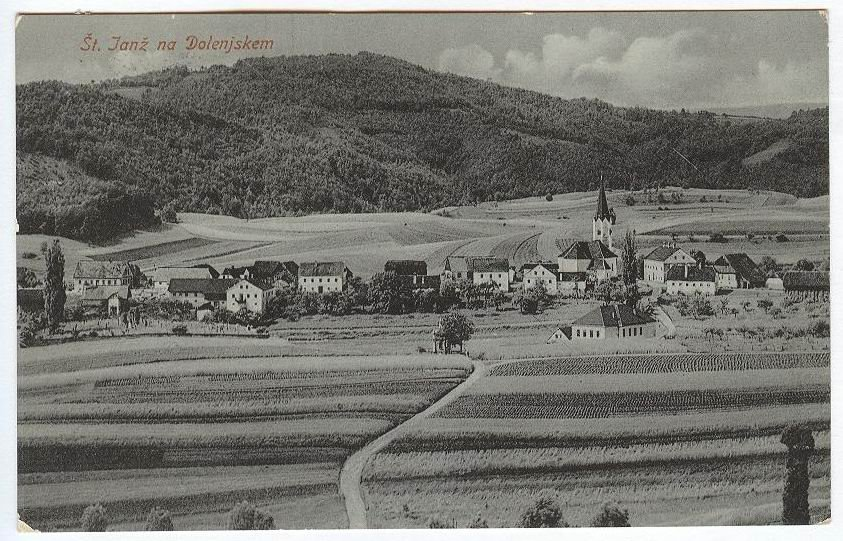 Postcard of Šentjanž, Sevnica, Slovenia.